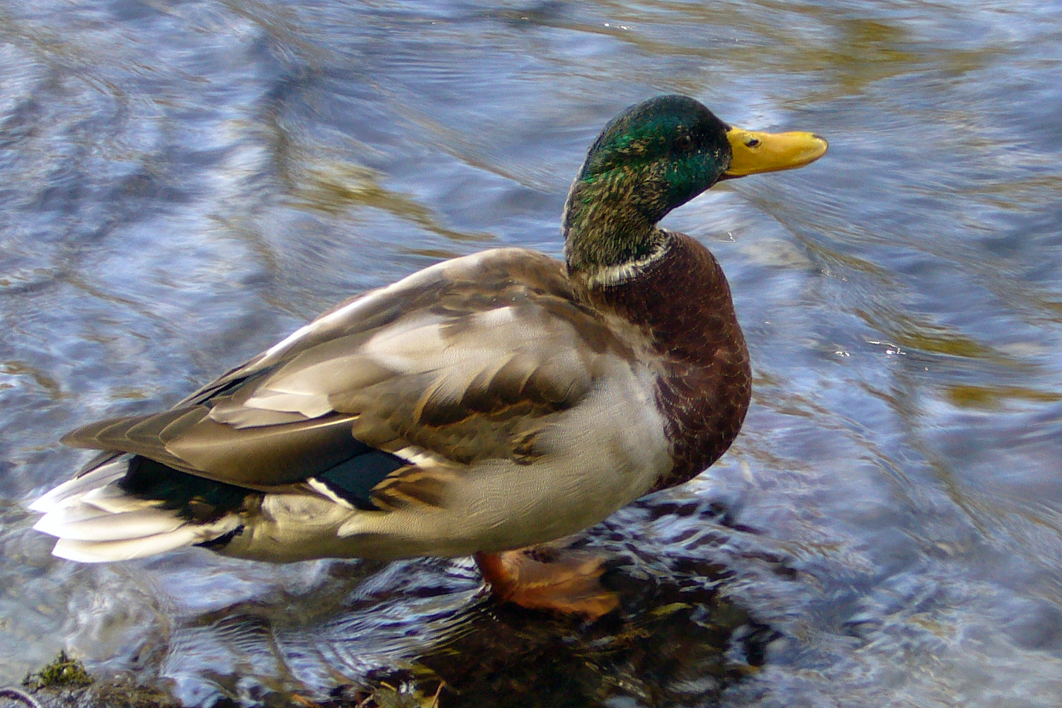 Mallard 2/4